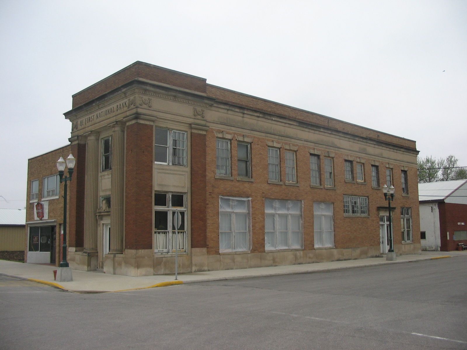 Old bank in Fonda (Iowa)